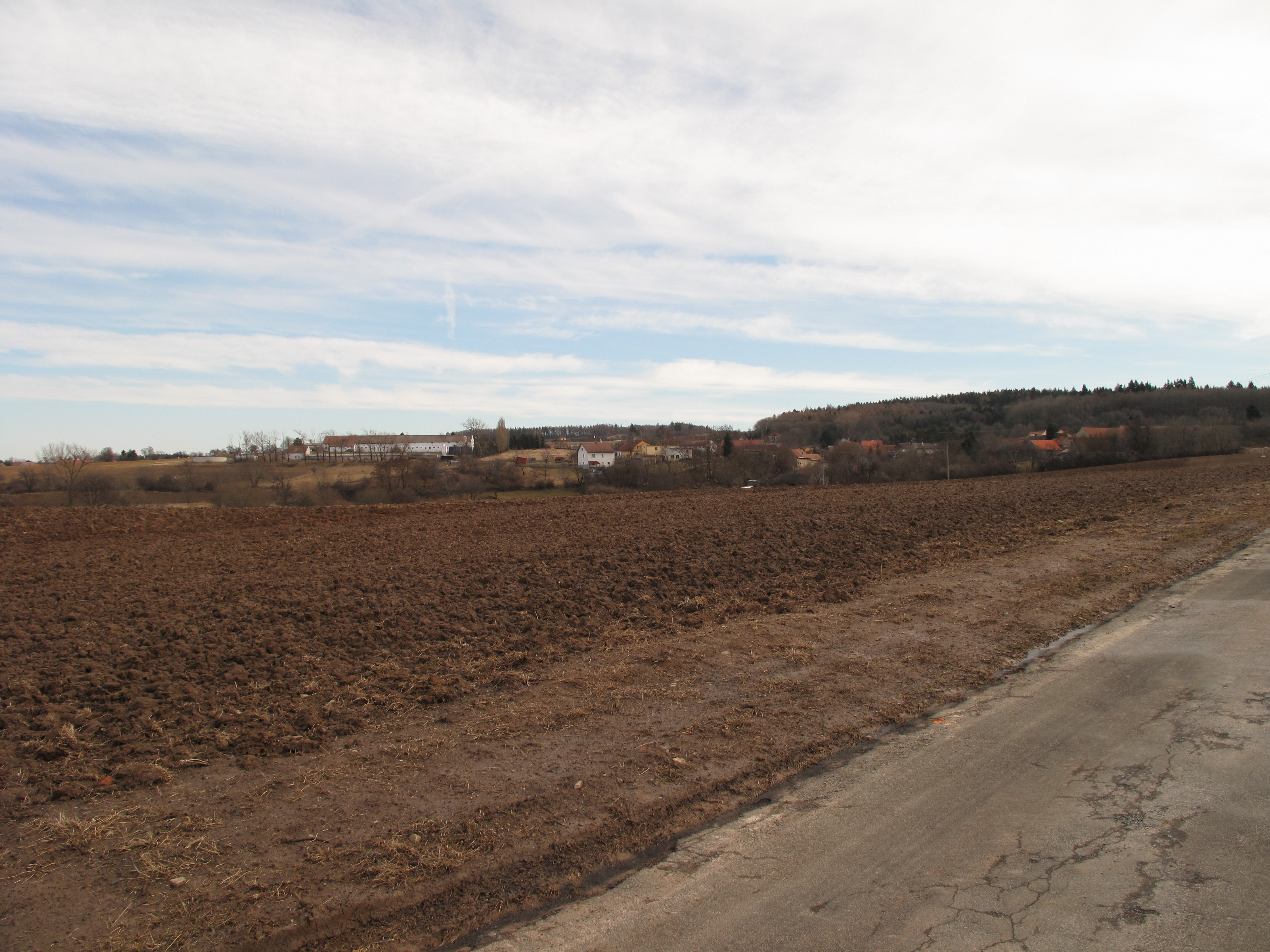 View at Opatovice village (Červené Pečky market town), Kolín District, Czech Republic.